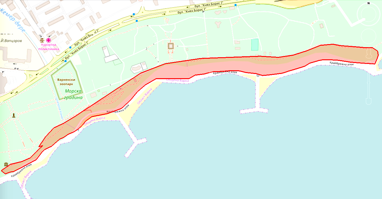 A map, which shows the territory of the "Alley First" project in Varna, Bulgaria.